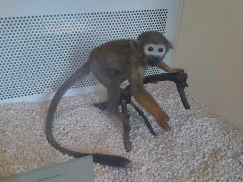 Taxidermied common squirrel monkey (Saimiri sciureus) at the Natural History Museum in London, England.